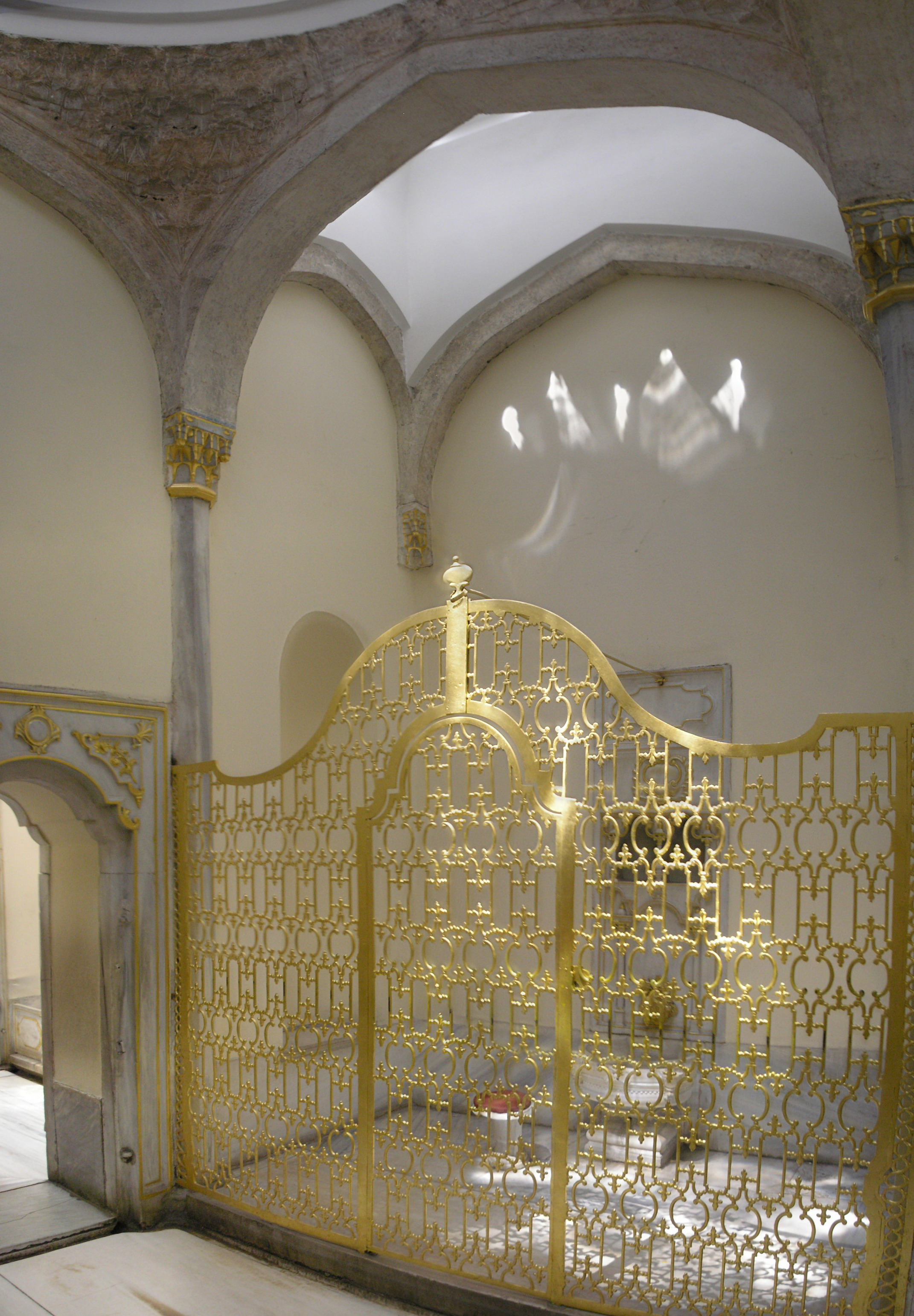 The gilded cage door of the private bath of the Valide Sultan (Queen Mother), in the Topkapi Palace, Istanbul. Only she would hold the key and lock herself up during her bath so that nobody could kill her.